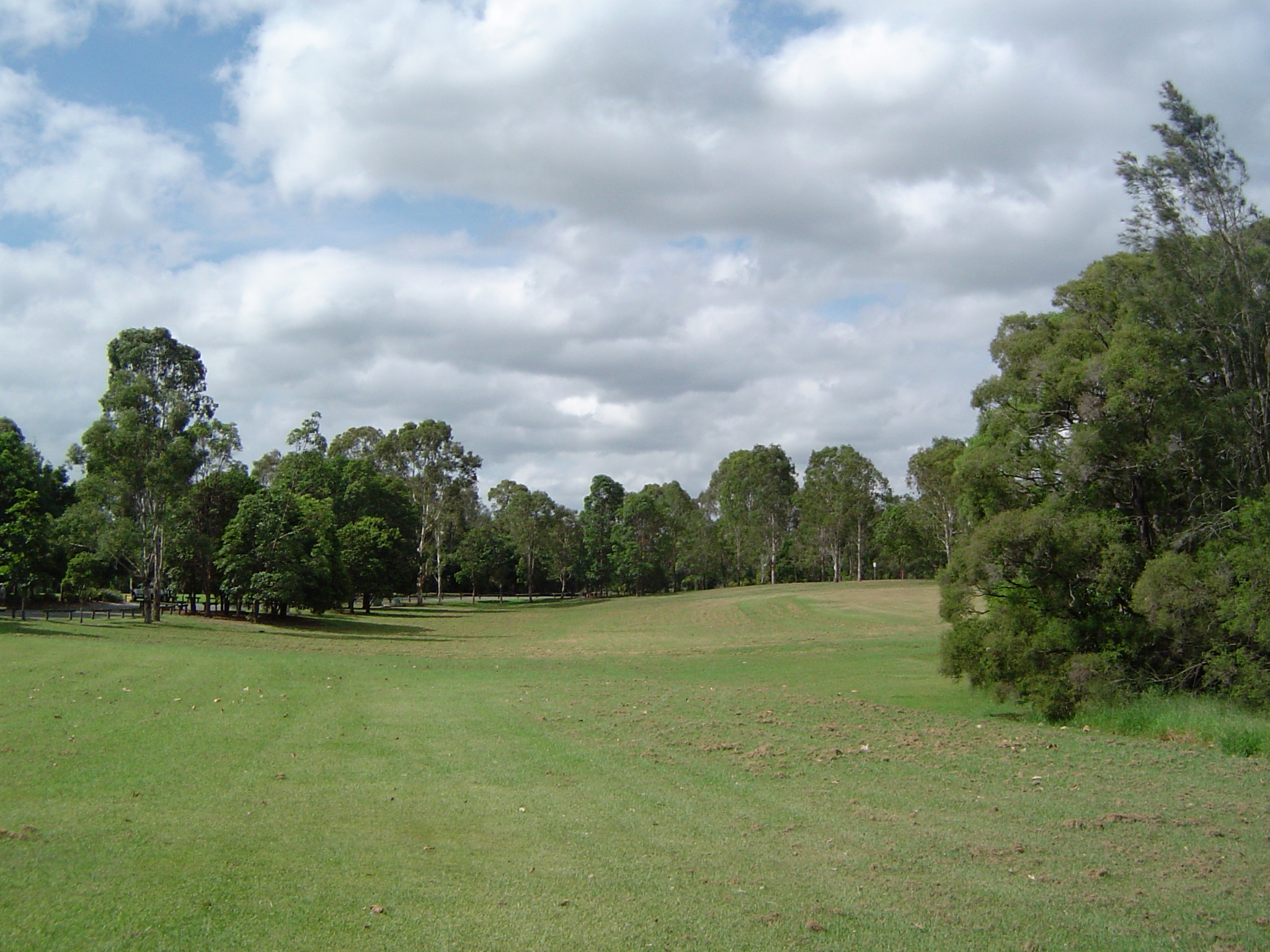 Photo of extensive fields at Riverdale Park in Meadowbrook, Logan City, Queensland, Australia.